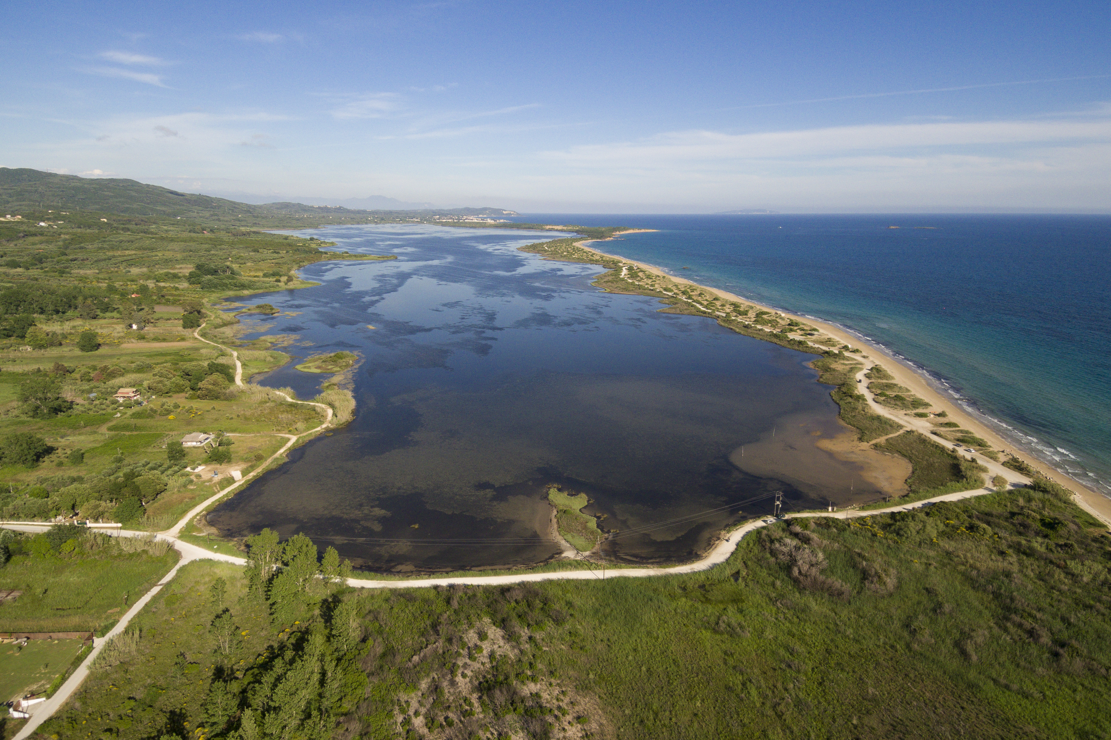 NATURA biotope Korission lagoon, located in Corfu, Greece This is a photography of Natura 2000 protected area with ID GR2230002